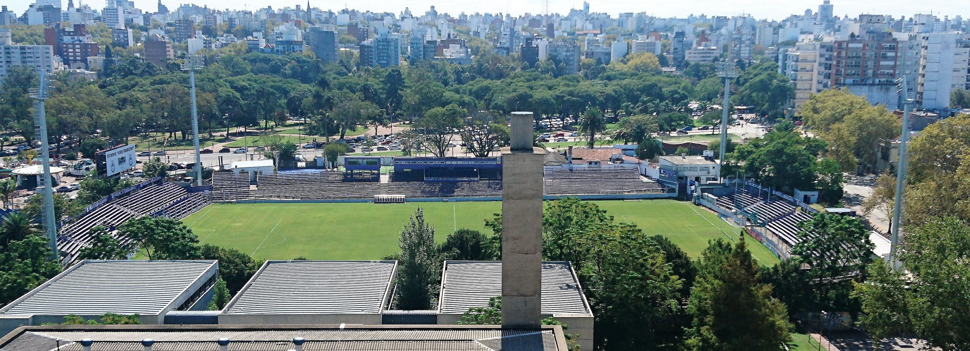 Estadio Luis Franzini seen from Engineering Faculty